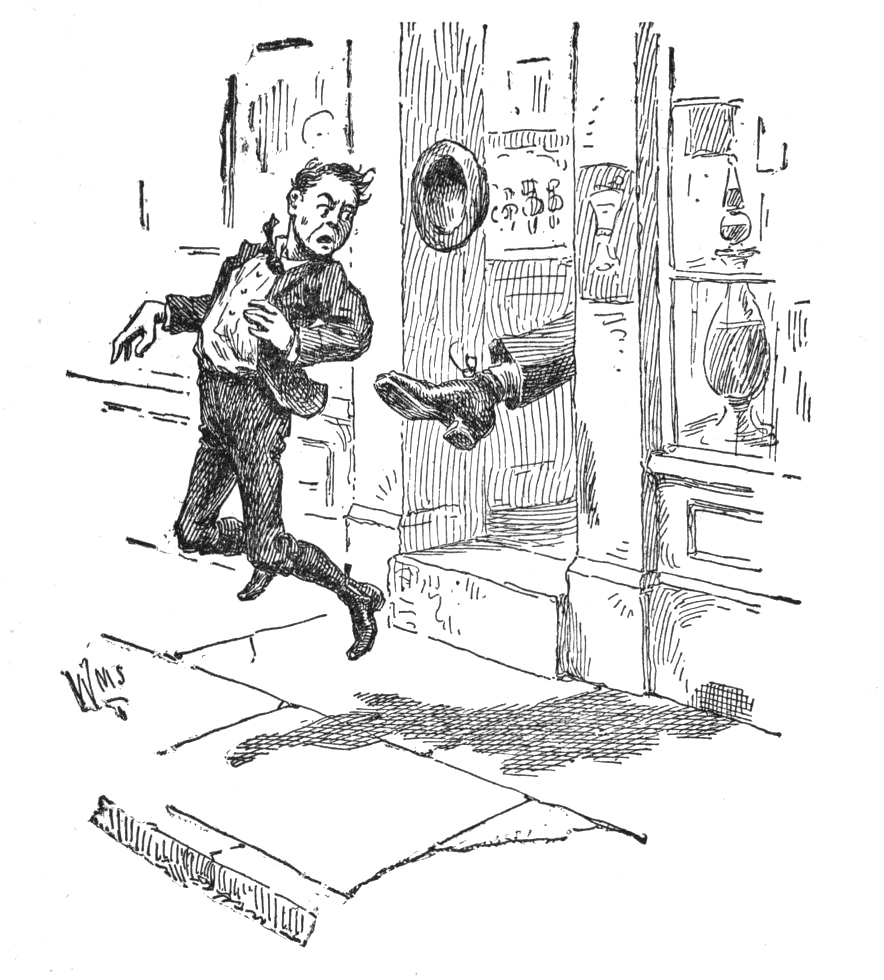 "Then the drug man told me to face the door."